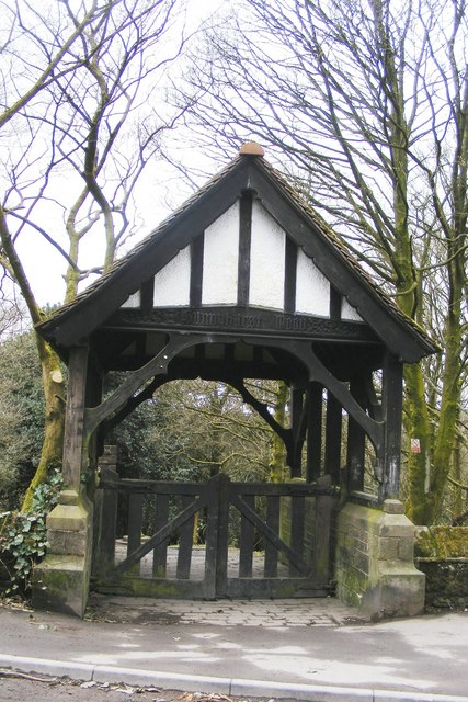 Lych-gate at entrance to Sunnyhurst Wood